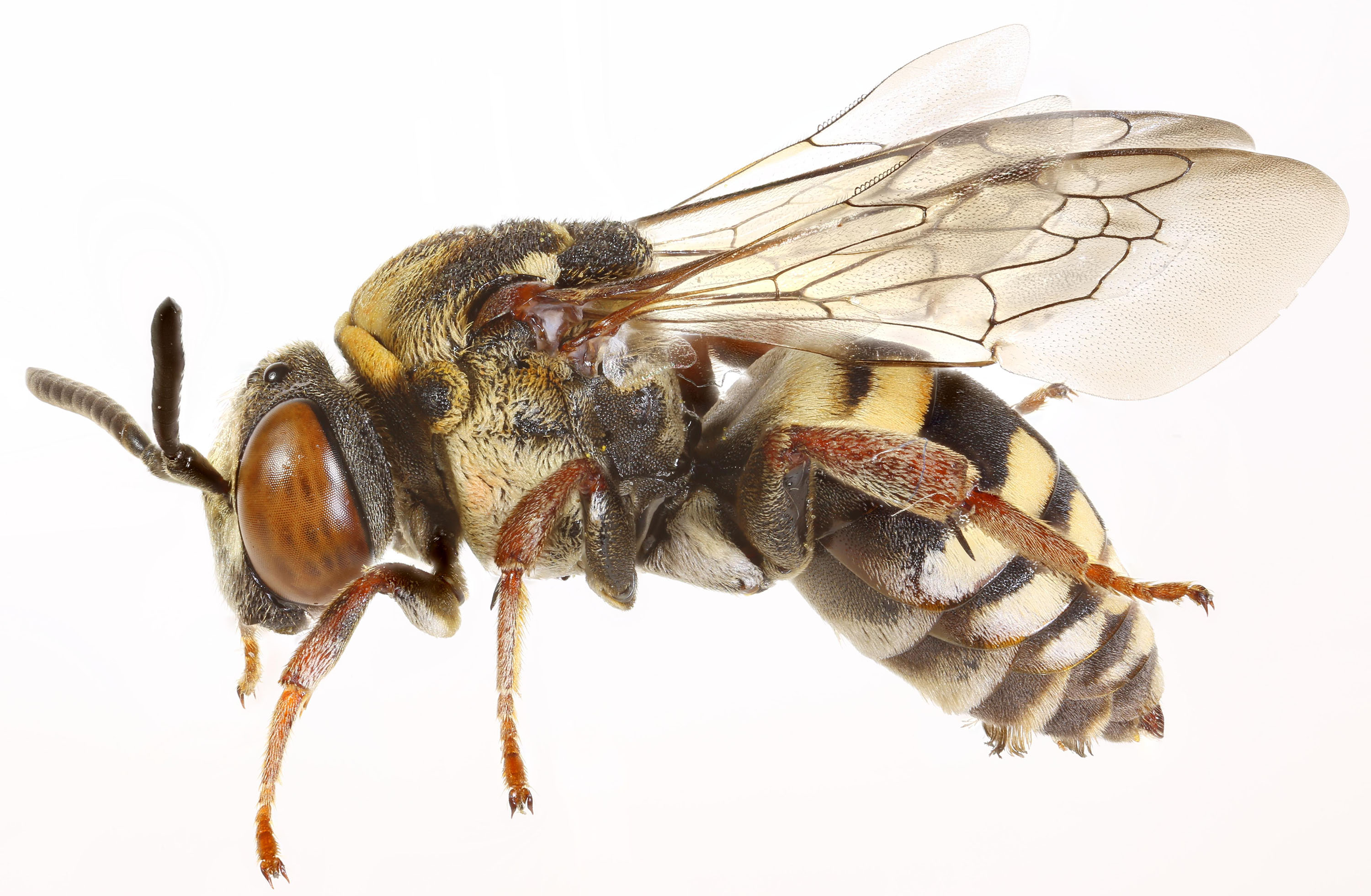 Epeolus cruciger, Ddol, North Wales, July 2016